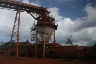 One of the world's largest bauxite mines in Weipa, Cape York, Australia